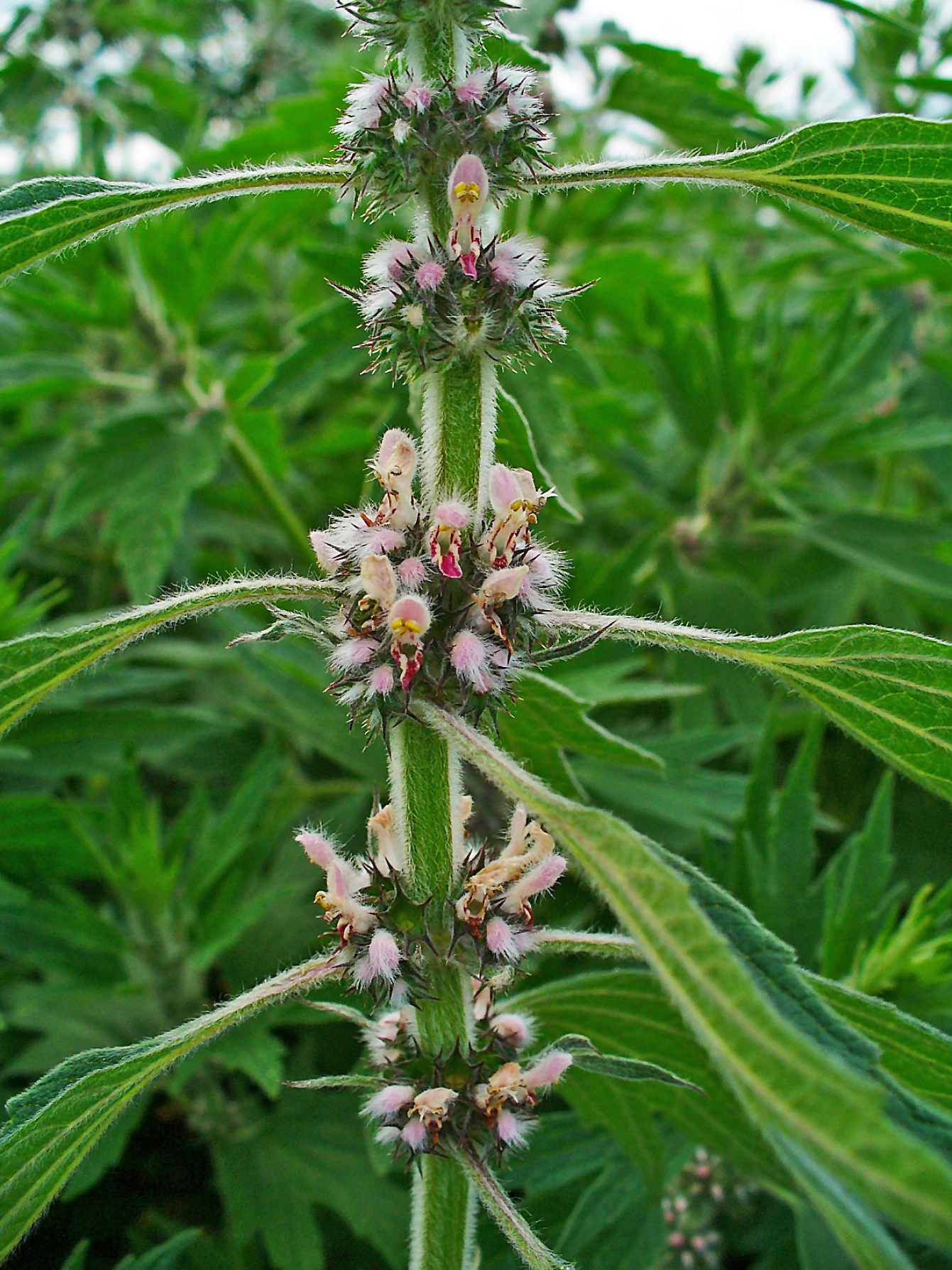 Leonurus cardiaca, Lamiaceae, Motherwort, inflorescences. The fresh, aerial parts collected at bloom are used in homeopathy as remedy: Leonurus cardiaca (Leon.)